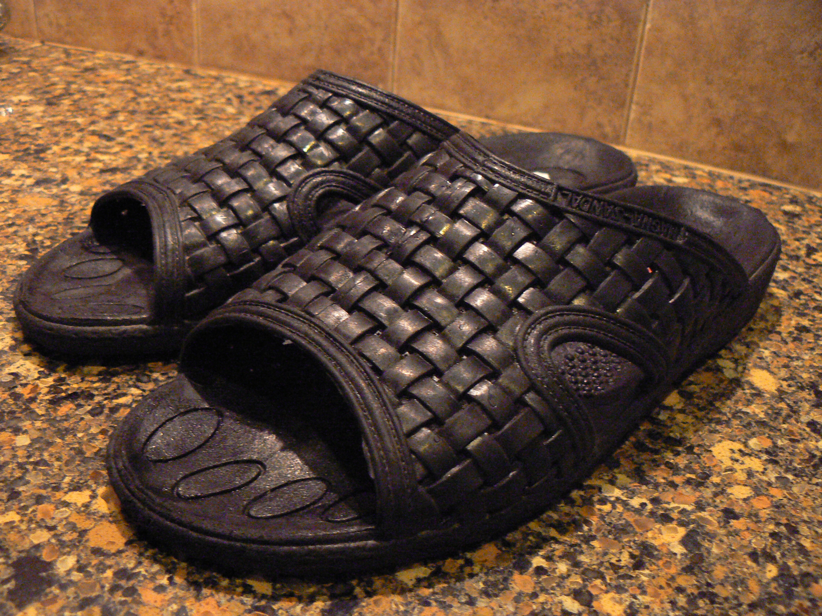 Imitation woven rattan flip-flop shoes made from plastic.